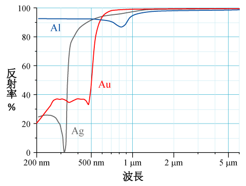 Reflectance vs. wavelength curves for aluminium (Al), silver (Ag), and gold (Au) metal mirrors at normal incidence. For optical coating.